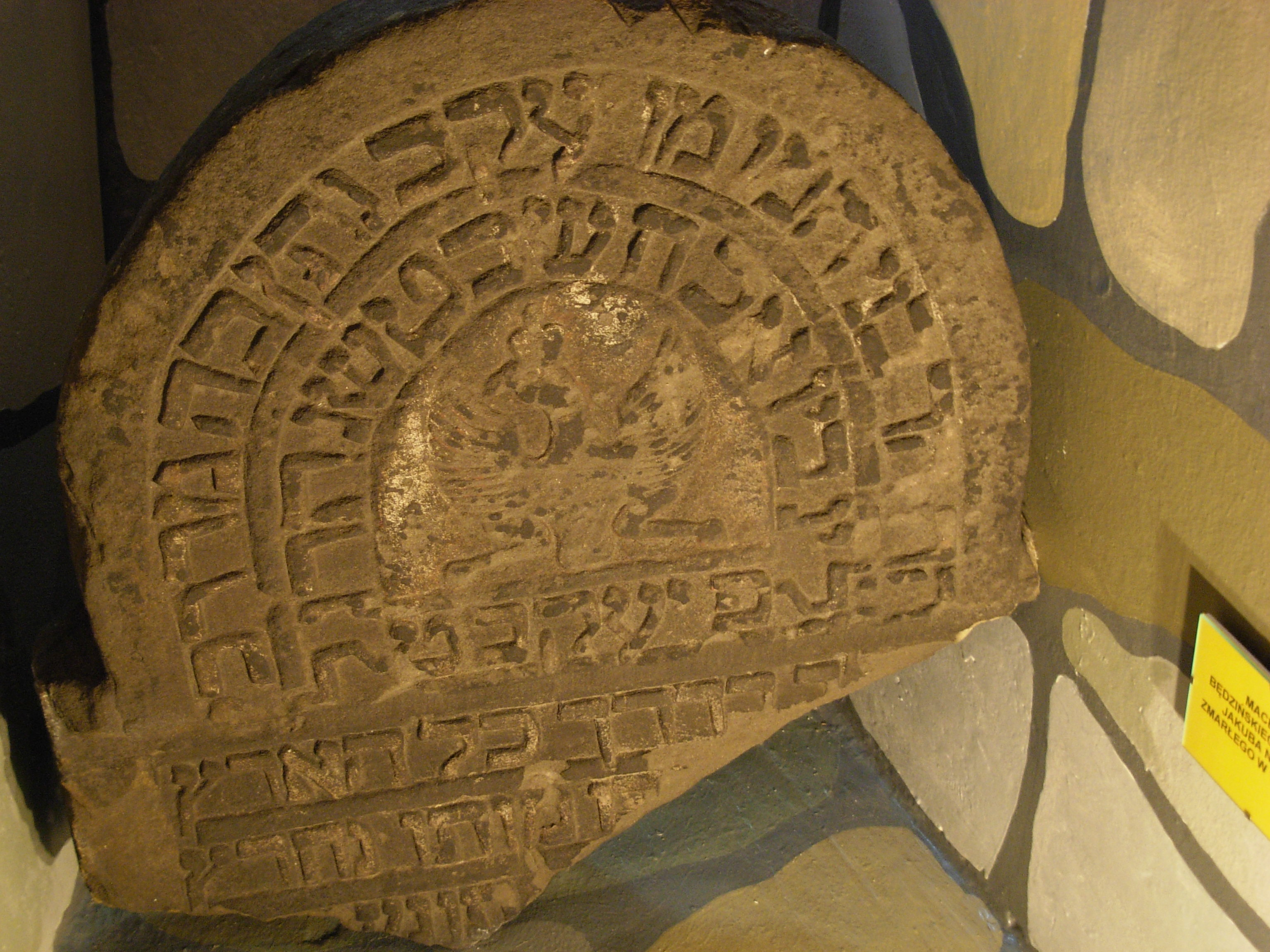 The gravestone of a Rabbi in the Muzeum Zagłębia, in Castle in Będzin, Poland.